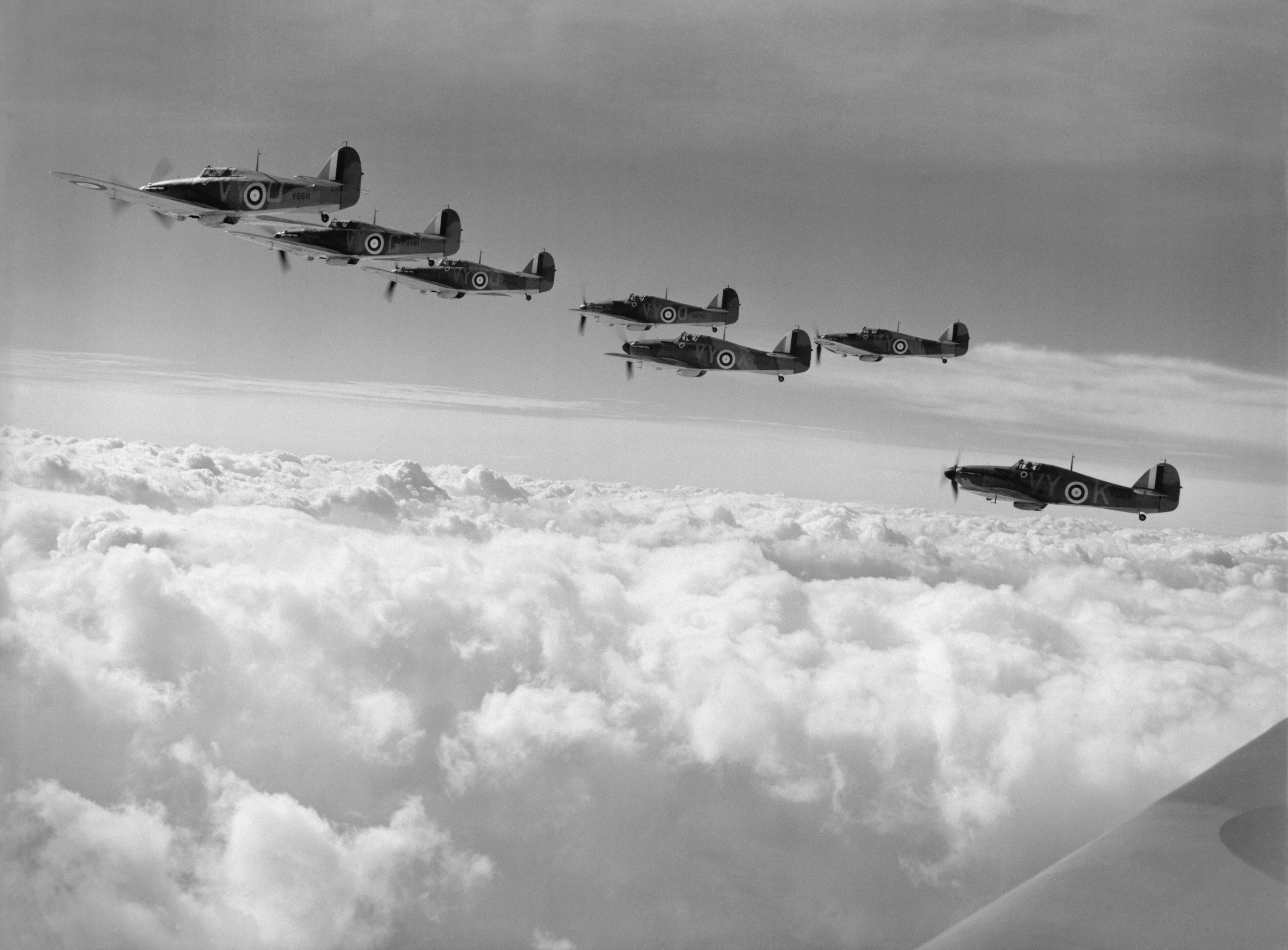 Royal Air Force Fighter Command, 1939-1945. A formation of Hawker Hurricane Mark Is of No. 85 Squadron RAF based at Church Fenton, Yorkshire, climbs above the clouds, led by Squadron Leader P H Townsend.